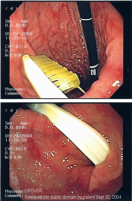 Endoscopy image of gastric foreign body (toothbrush).